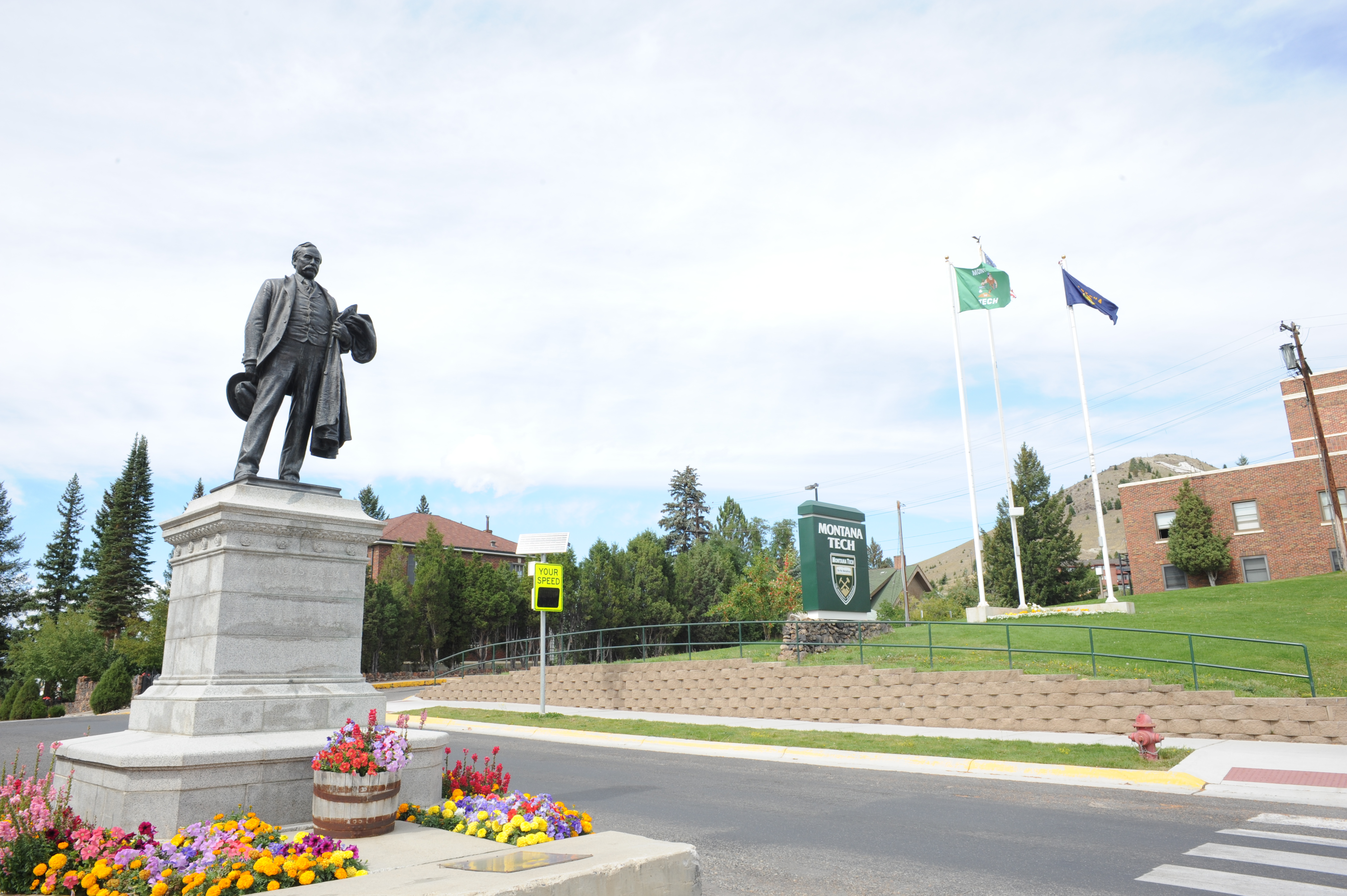 Gate of Montana Tech